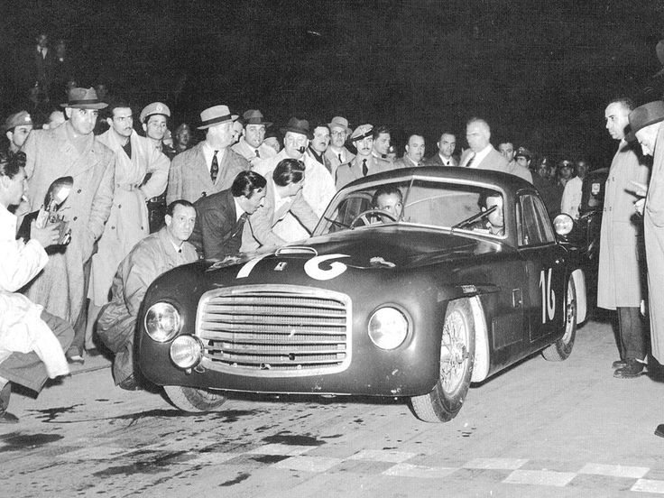 Entry #16 and WINNER of Mille Miglia on 2 May 1948 was the 1948 Ferrari 166 S Allemano Berlinetta s/n 003S driven by Clemente Biondetti and Giuseppe Navone.[1]